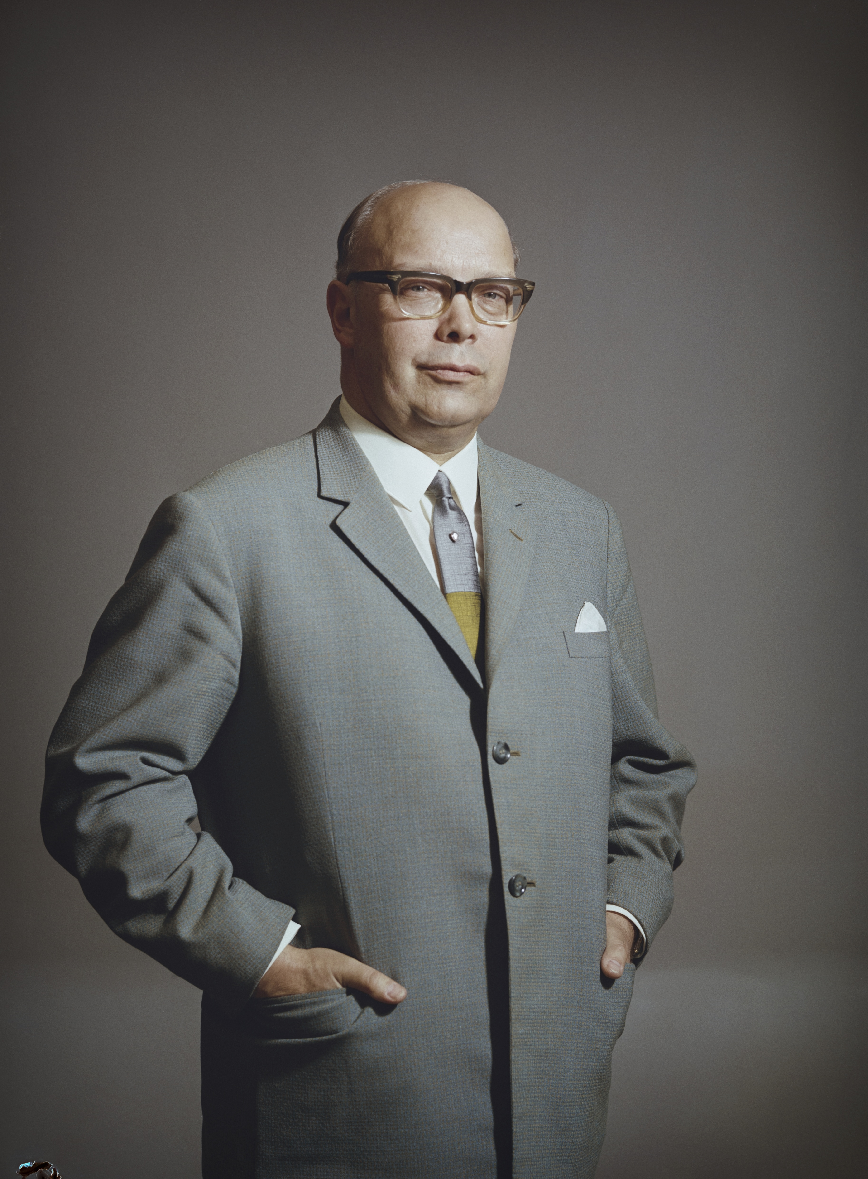 Photograph of the Finnish economist Jorma Jalava (1910–1991).